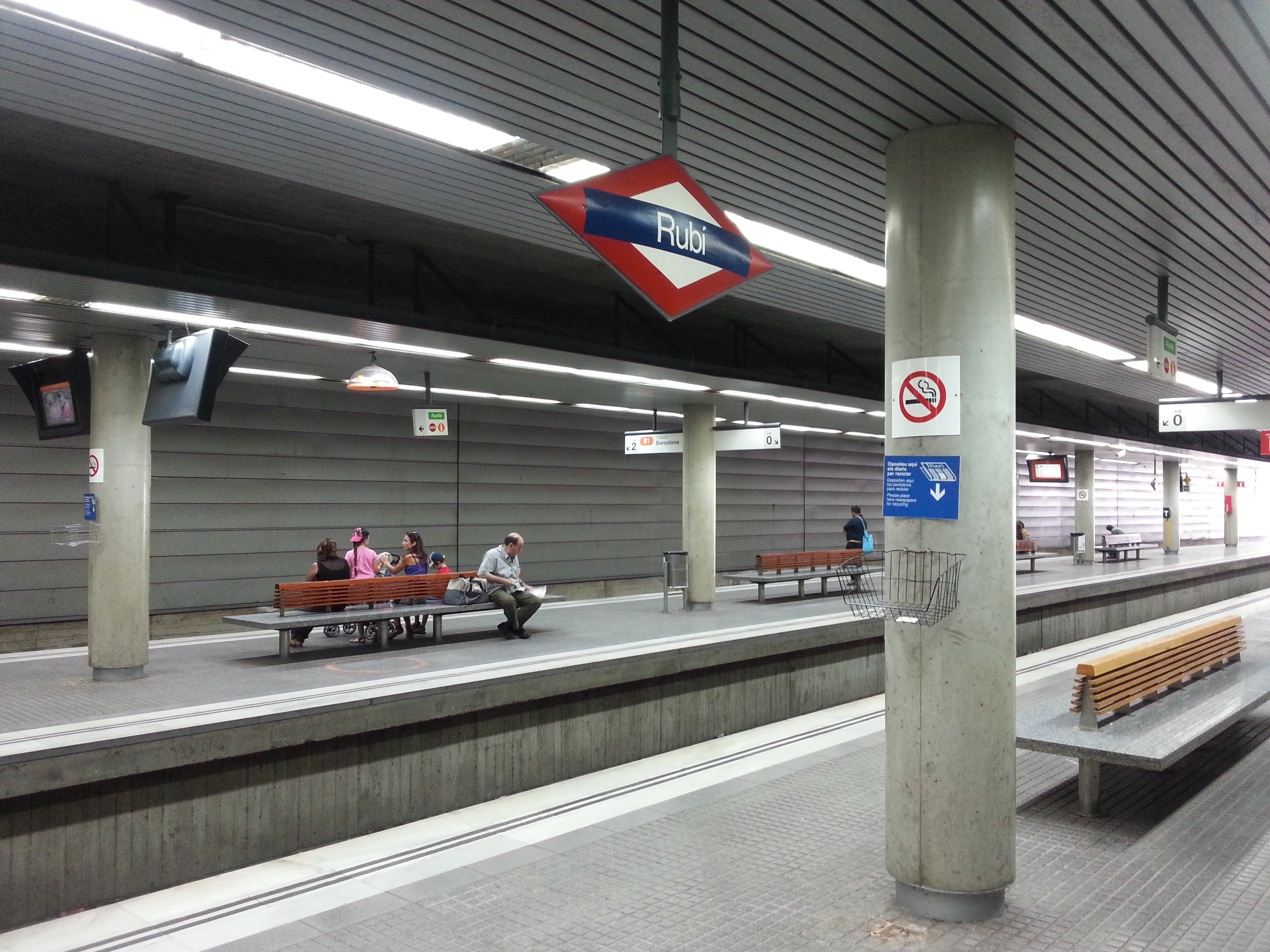 FGC - Rubi station